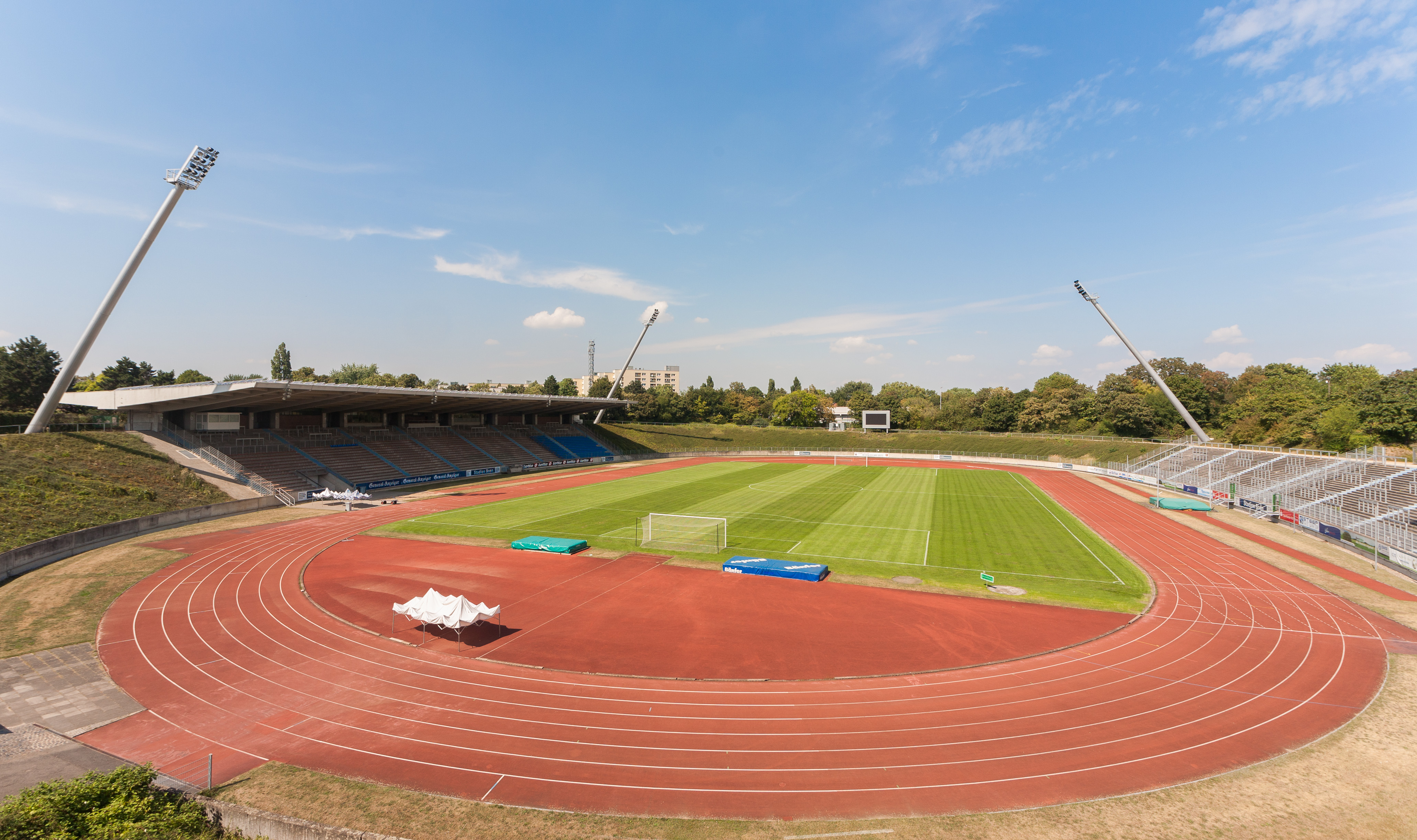 Sportpark Nord, Bonn: stadium, view from South-southeast